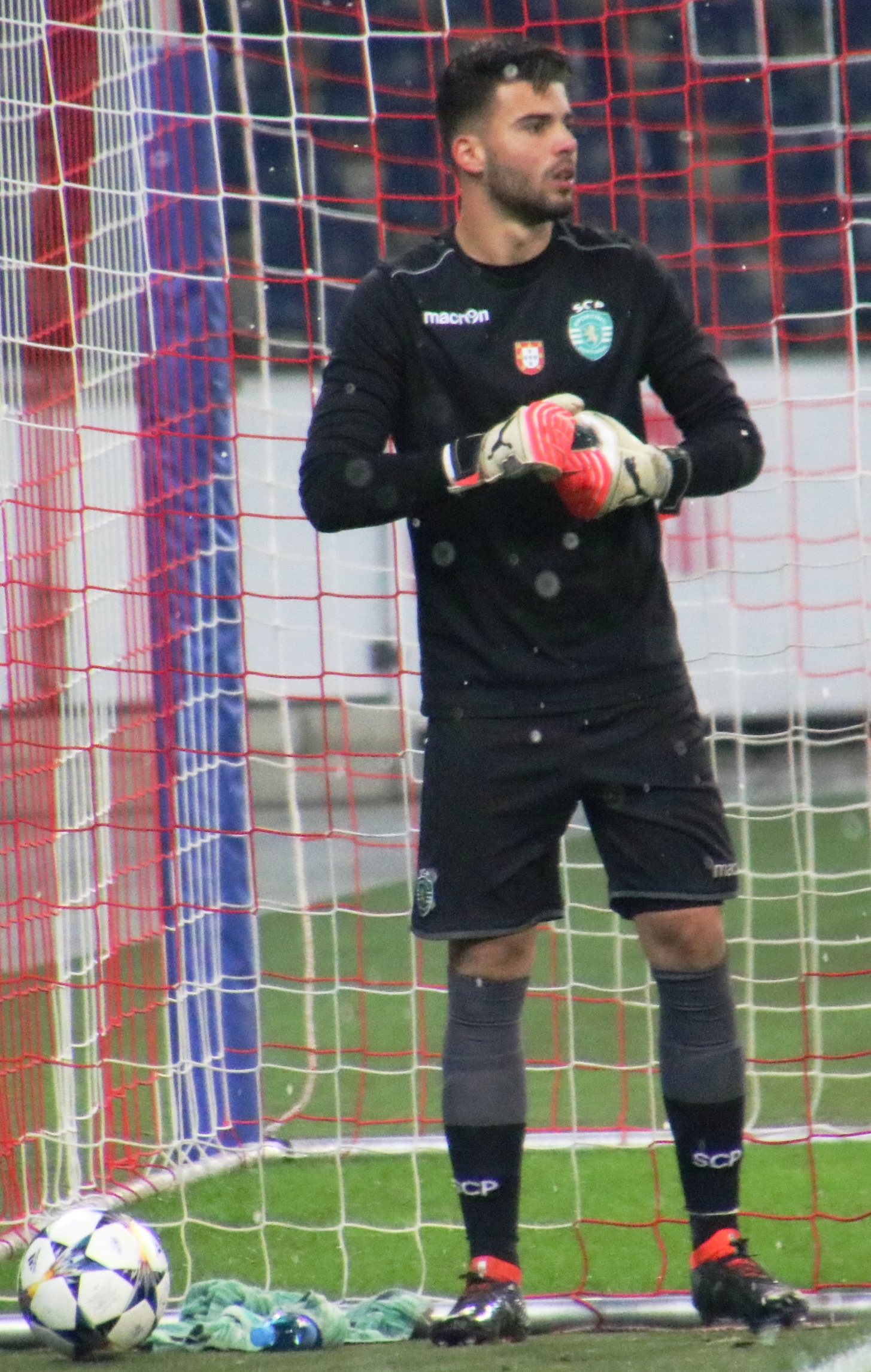 UEFA Youth League 2017/18 play off match